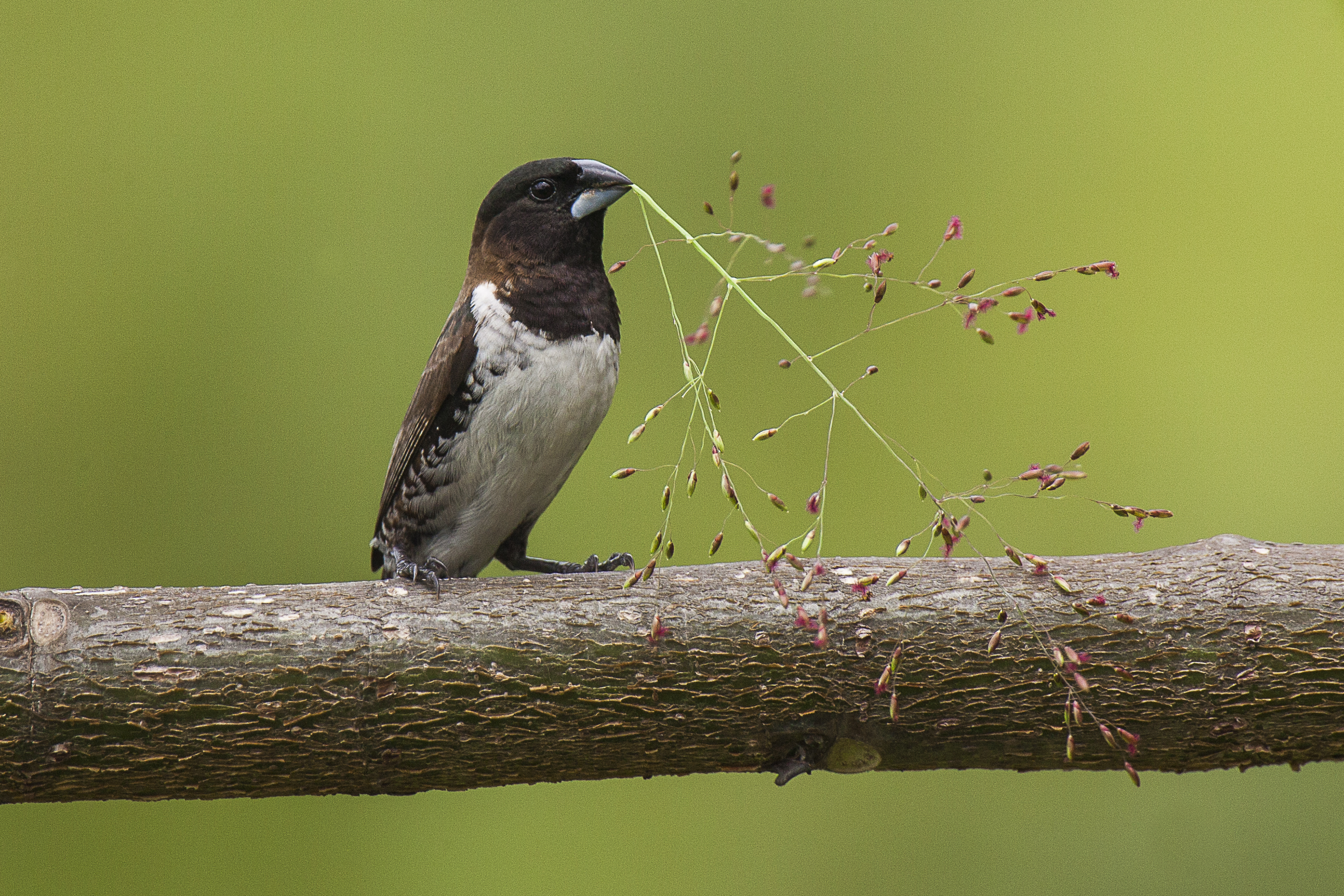 An adult Bronze mannikin in Uganda carries the seed head of green Panicum grass for nestbuilding